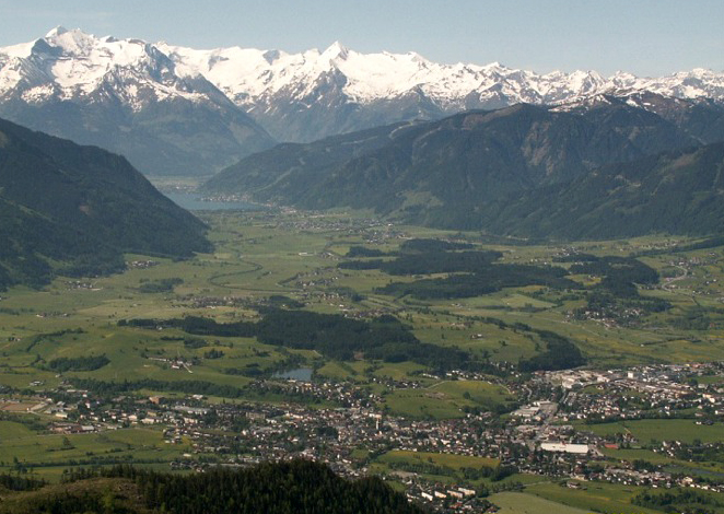 own digital photography by G. Hufler Pinzgauer 18:53, 27 December 2005 (UTC) summer 2005 the picture shows the Saalfeldner Becken in Austria. In the background the Hohe Tauern, in the centre the Kitzsteinhorn nearby Kaprun.